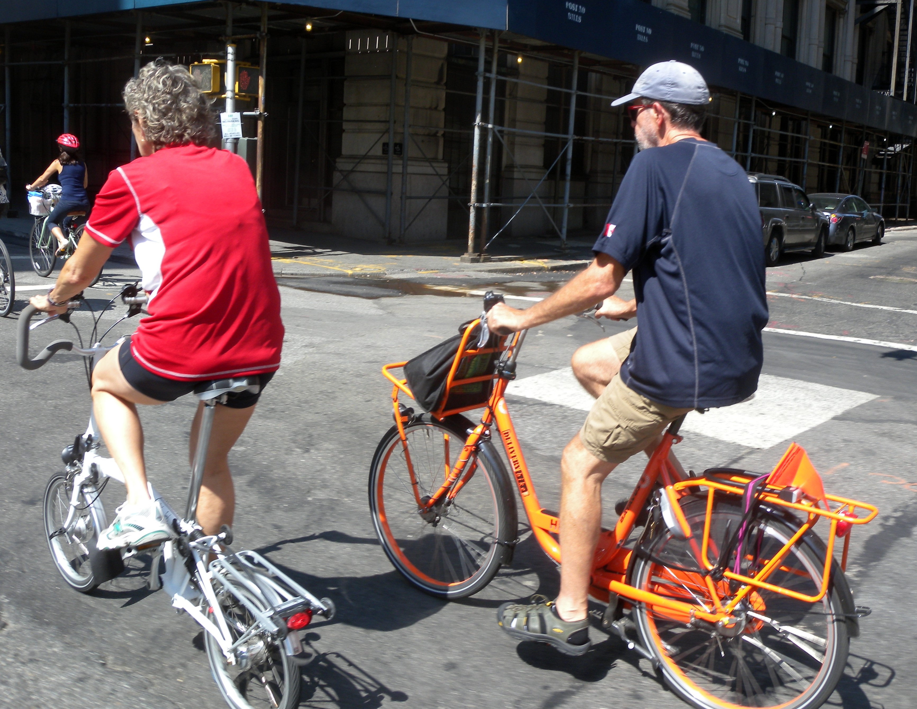 Looking west as southbound bikes on Lafayette Street cross Leonard Street on a sunny morning.